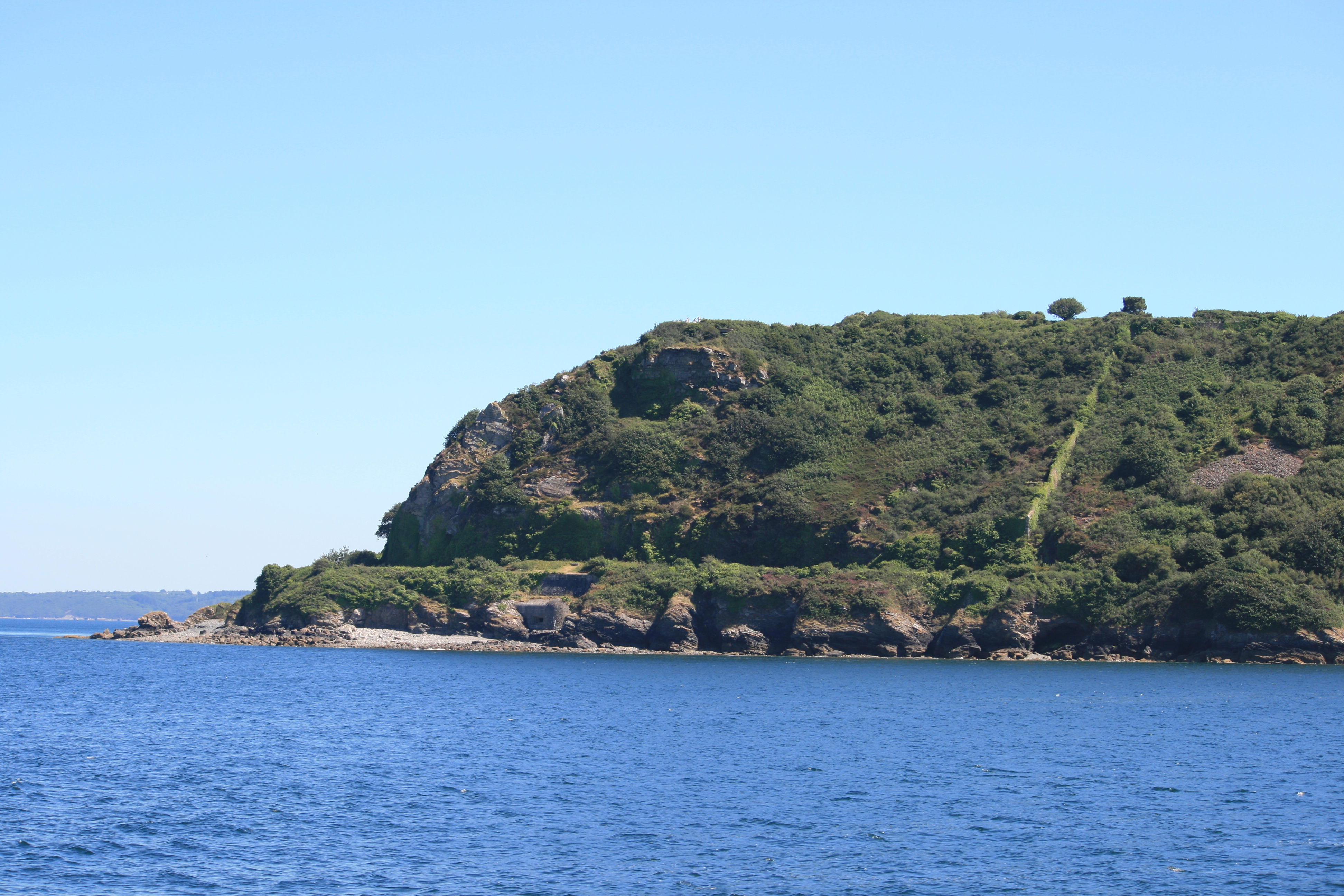 Pointe des Espagnols (Spanish Cape), Roscanvel